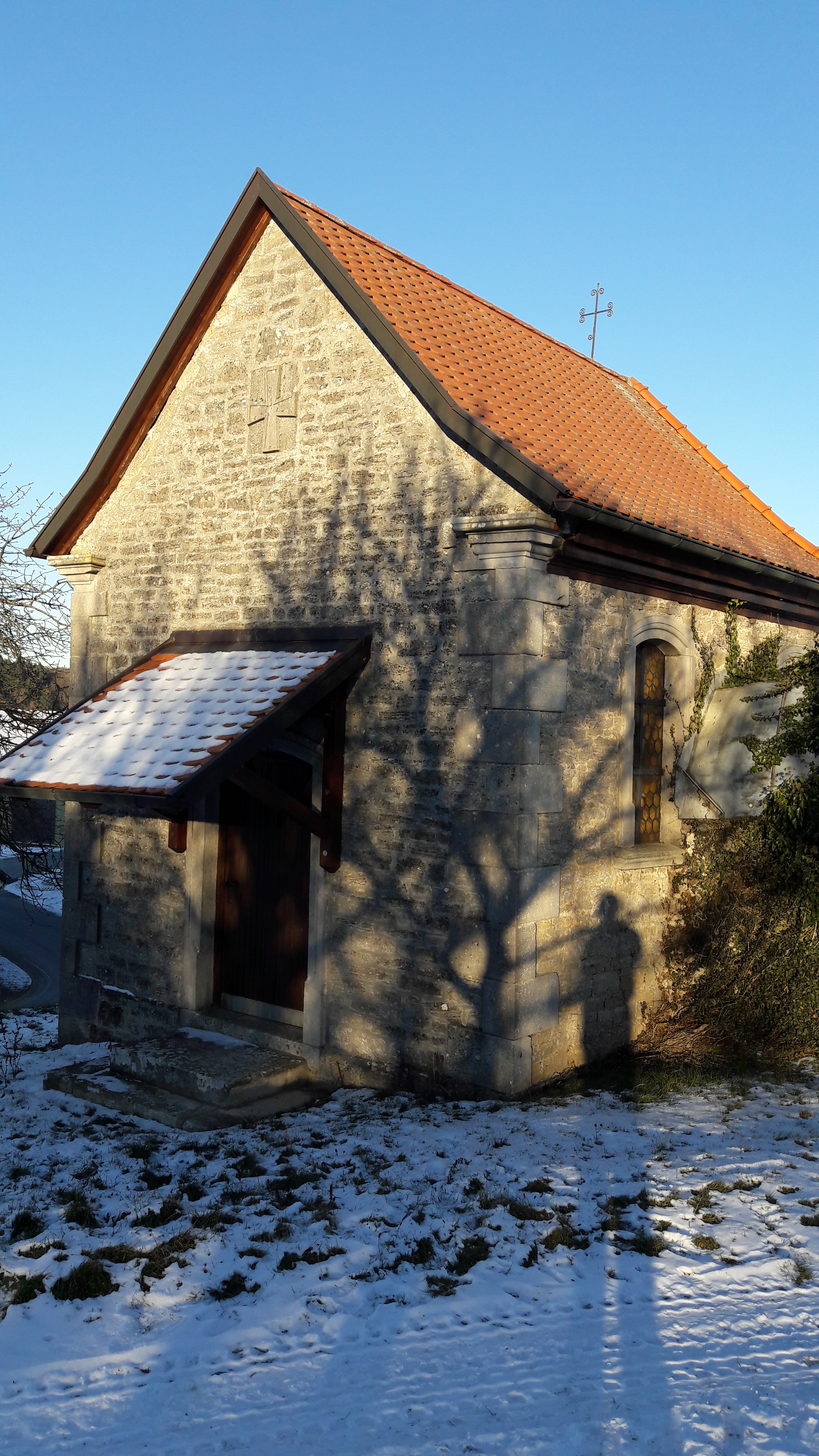 Hof Lilach 3